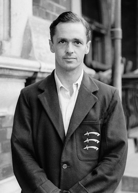 September 1947: Middlesex cricketer Francis George Mann (1917 - 2001), who took over from R W V Robins as the team's captain after the latter's retirement.